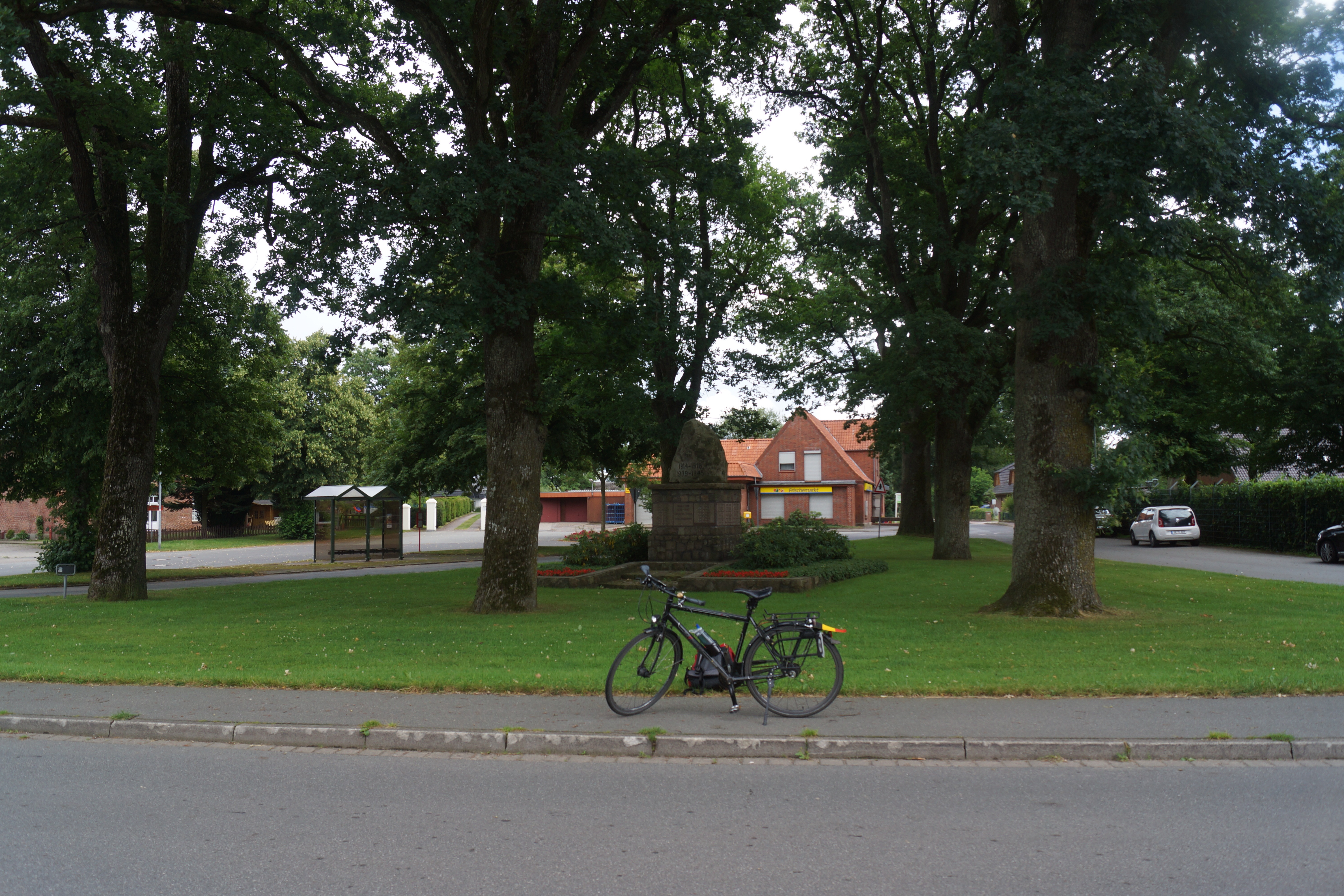 Bimöhlen, Germany: Main Square